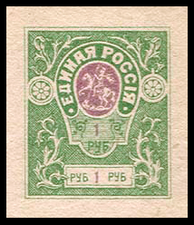 Essay of the Russian Denikin Government, mint. Unadopted colour.